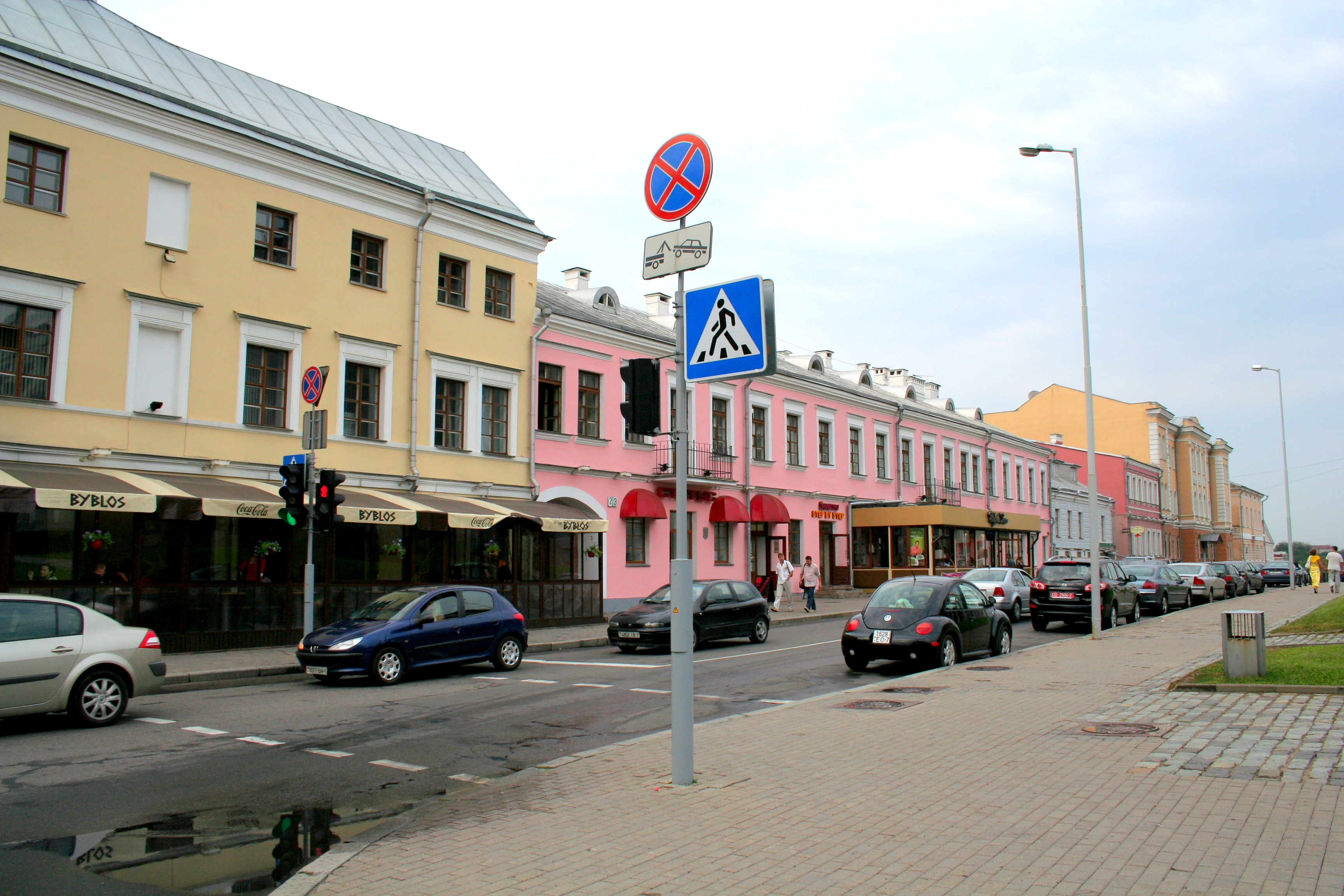 Views of Minsk (Belarus). Internationalnaya Street.